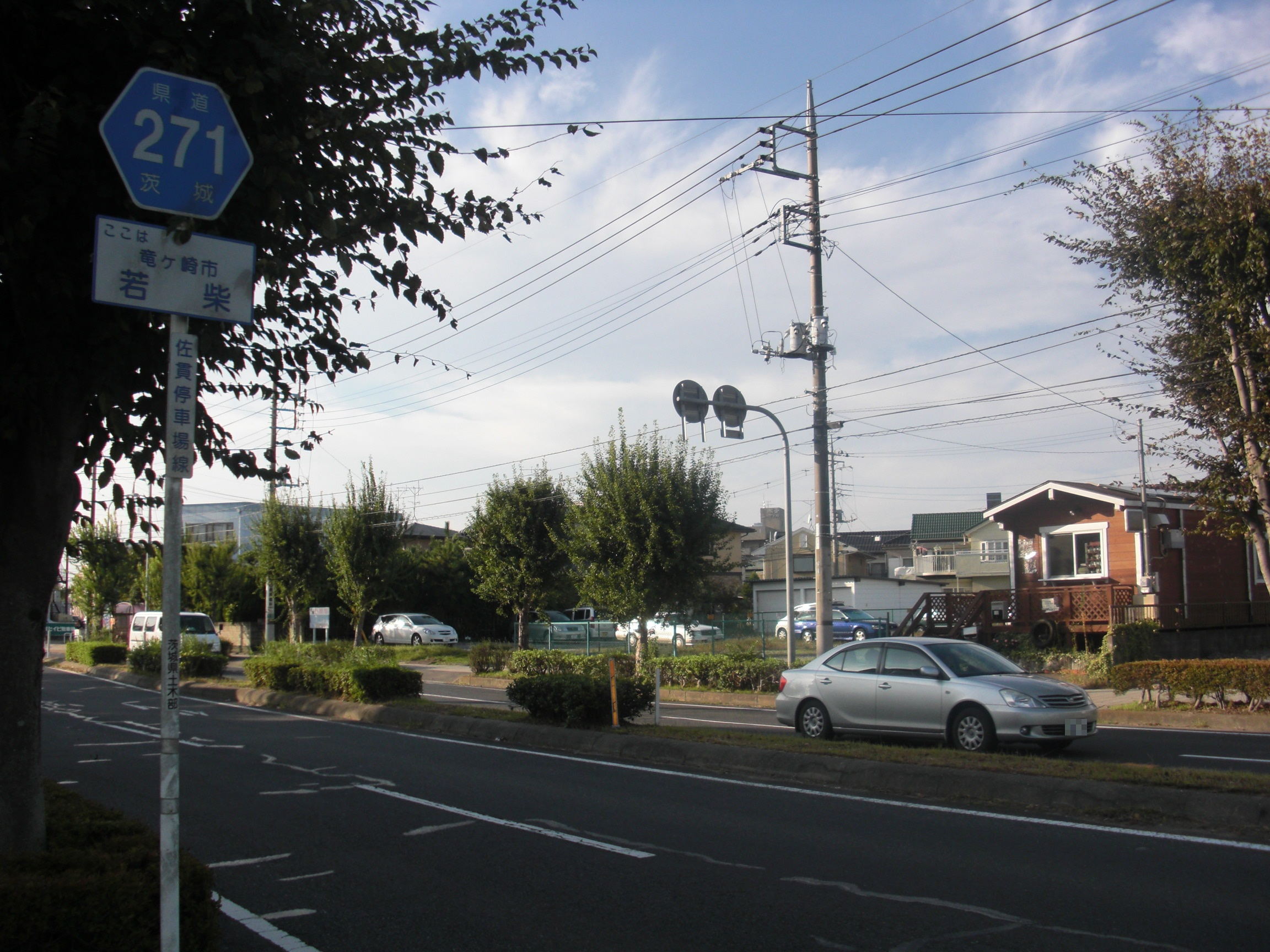 This is a landscape of Ibaraki prefectural road No. 271 Sanuki Teishaba Line at Wakashiba, Ryugasaki, Ibaraki, Japan.